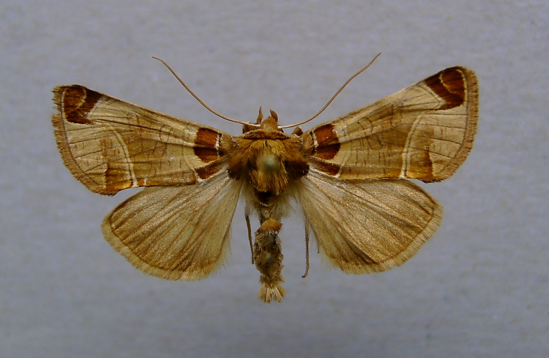 Plusidia cheiranthi, İspir, Turkey